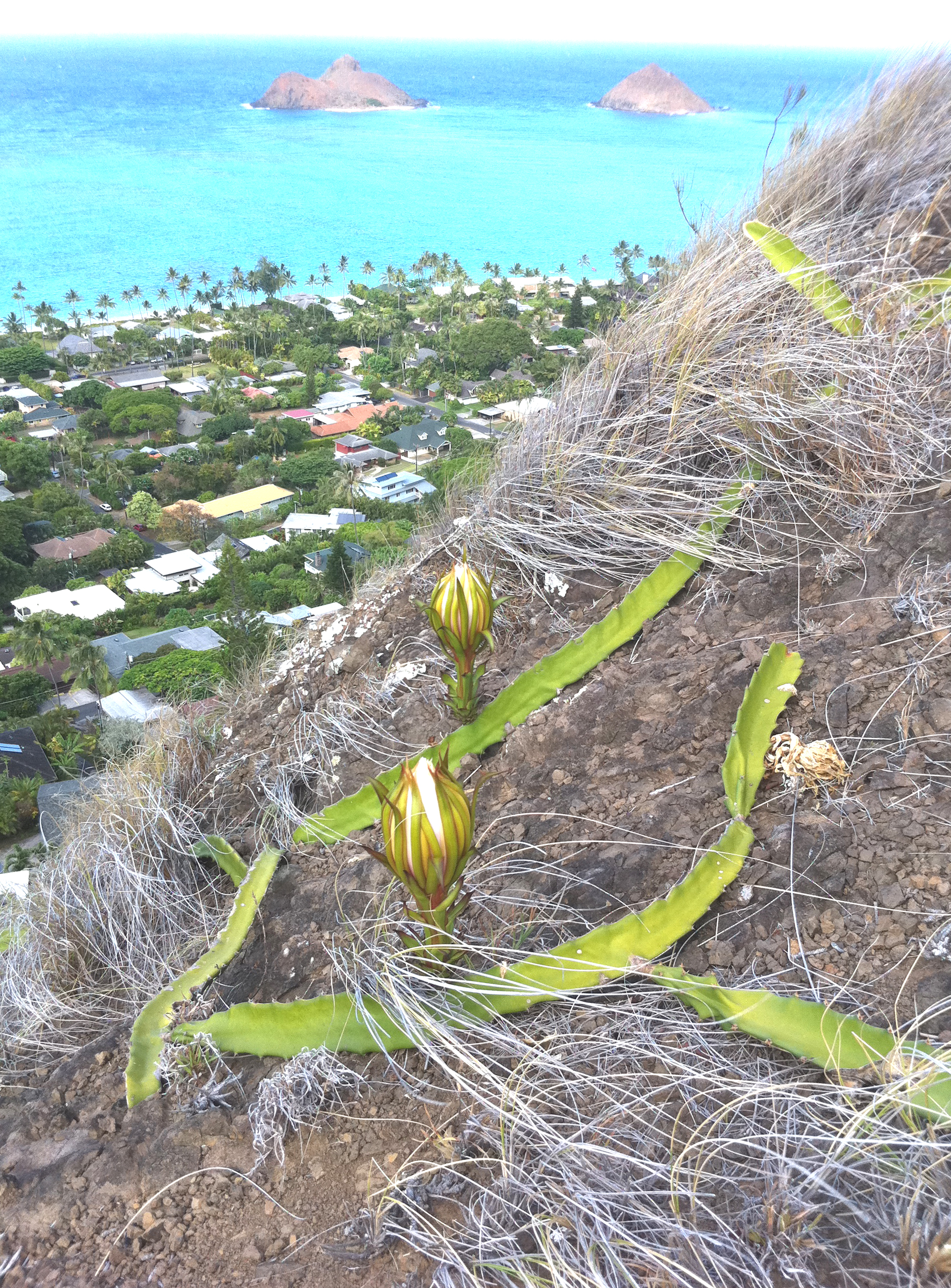 Hylocereus undatus — on hill in Lanikai, Kailua, Oahu, Hawaii.